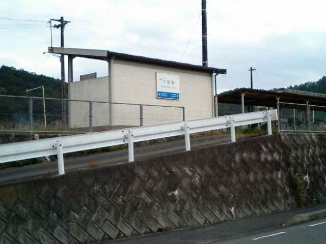 Shimowachi Station, JR West Geibi Line, Hiroshima Prefecture, Japan